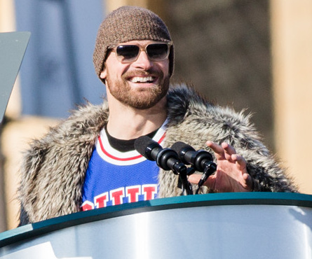 February 8, 2018 Philadelphia, PA